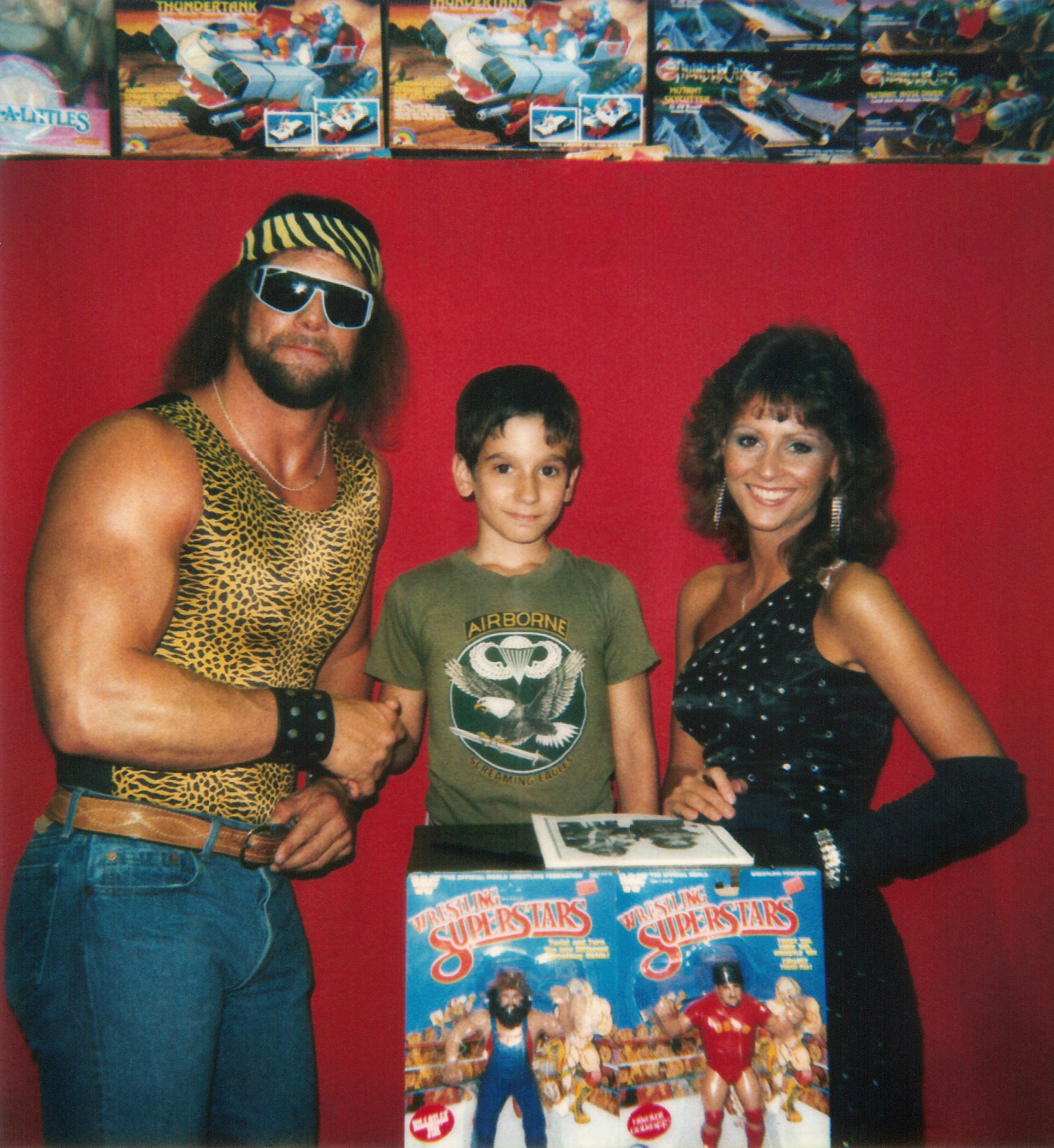 Macho Man and Elizabeth, Belleville, NJ, 1986 - 1 of 2. With "Macho Man" Randy Savage and Miss Elizabeth in the summer of 1986. Belleville Tobacco, 386 Main St. Belleville, NJ 07109. Pictured (left to right) : Randy Savage, Rob and Miss Elizabeth.